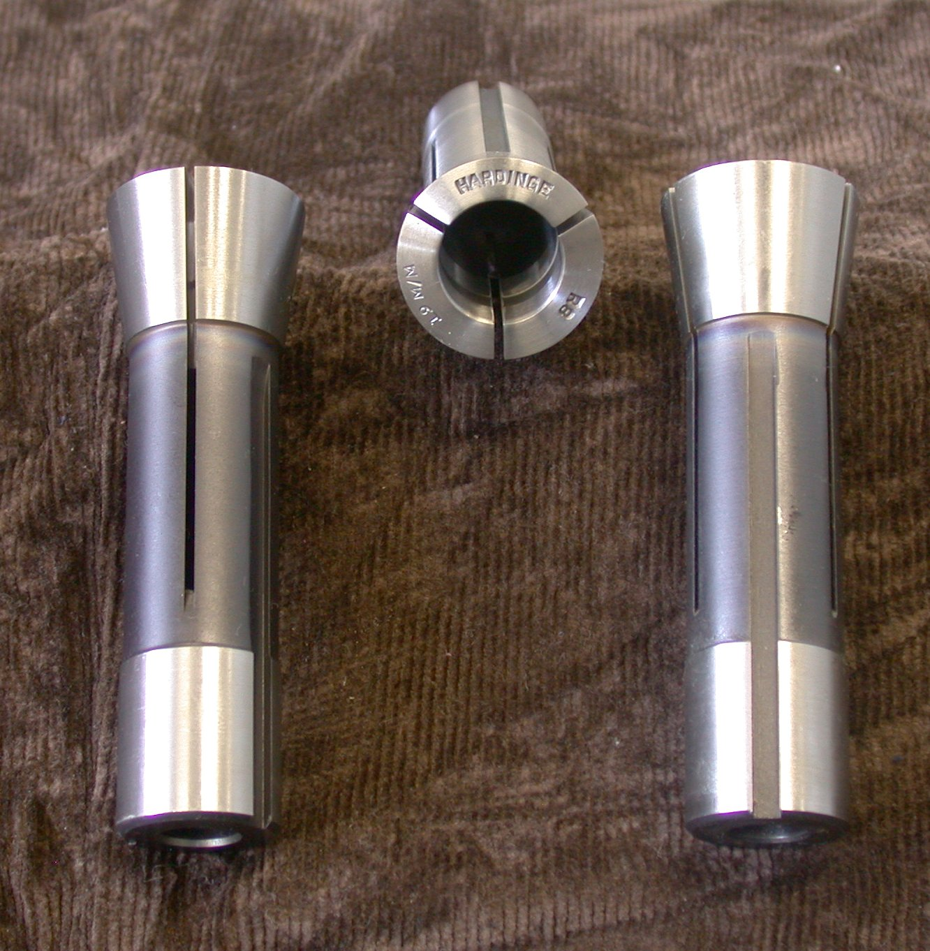 cSide and End view of R8 taper collets